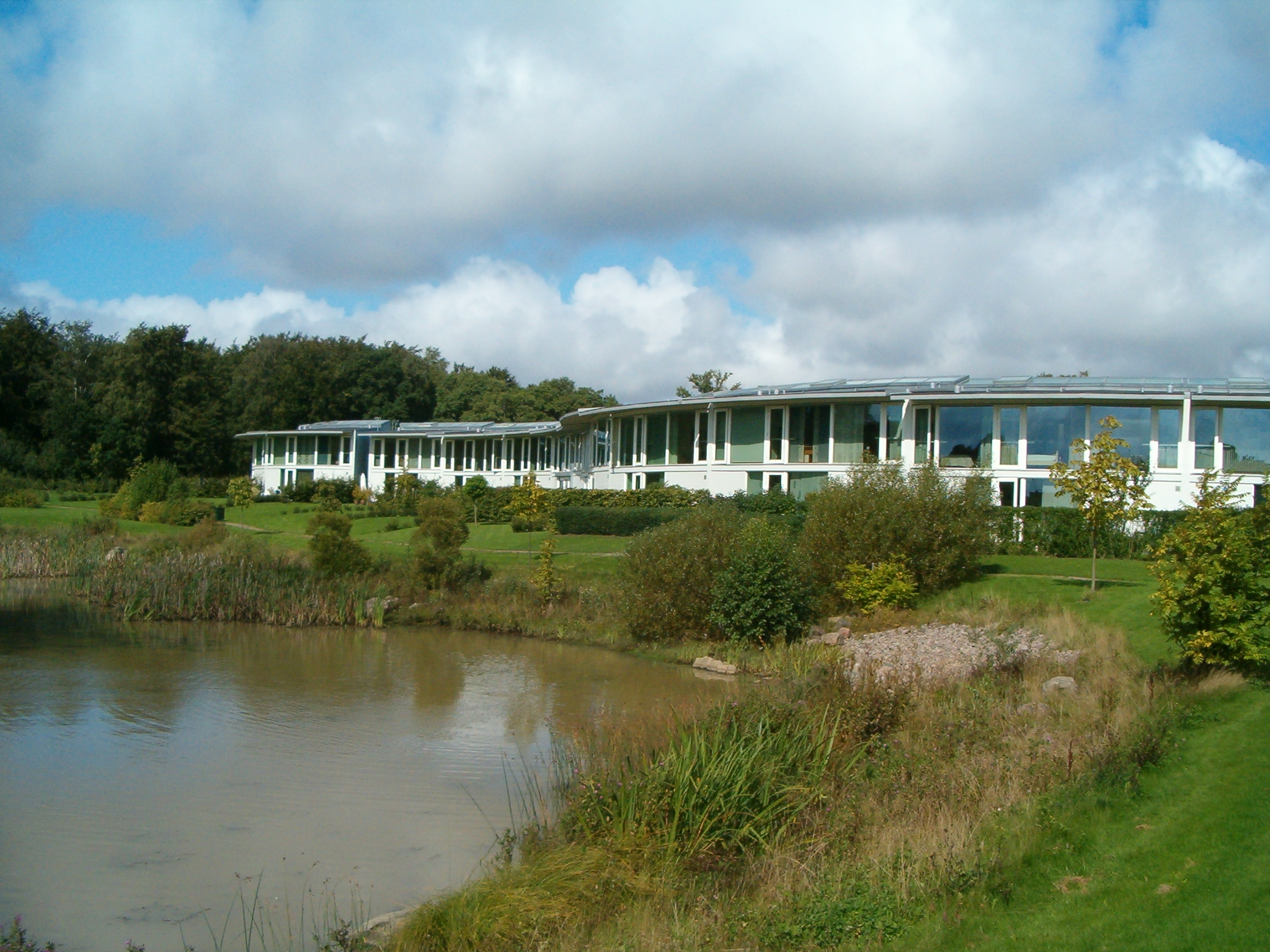 The "Eos"-building in Mariastaden, Helsingborg.